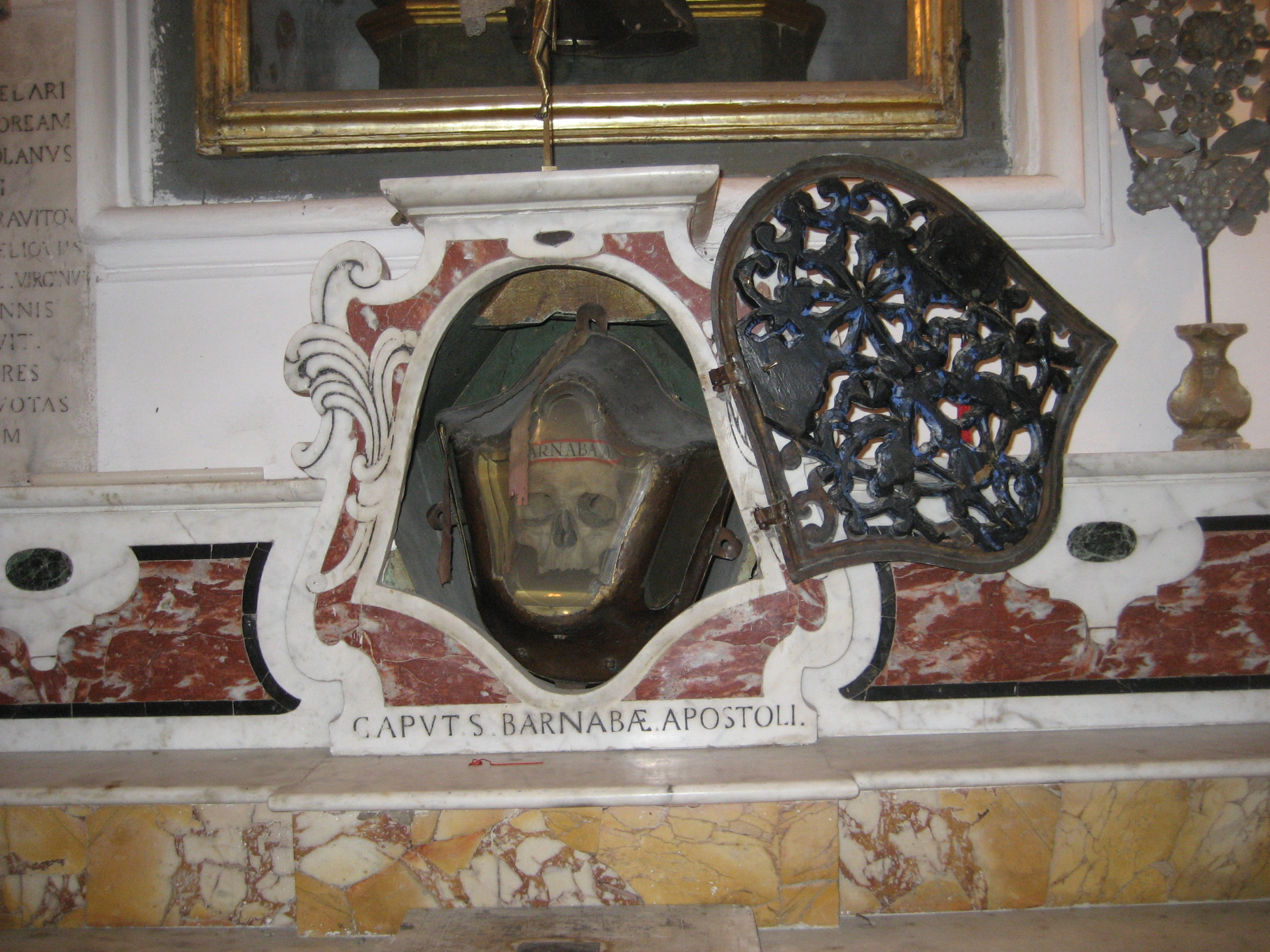 Saint Barnabas' skull, preserved into the church of Santa Maria di Grado, near the convent of Saint Rose of Lima in Conca dei Marini